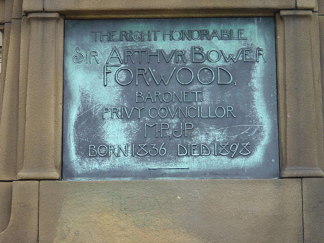 Photograph of a plaque on the statue of Sir Arthur Bower Forwood in St John's Gardens, Liverpool, England